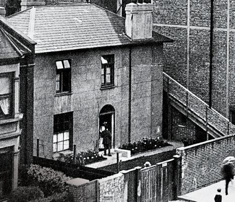 Mid 19th photograph of Urania Cottage, Lime Grove, Shepherd's Bush